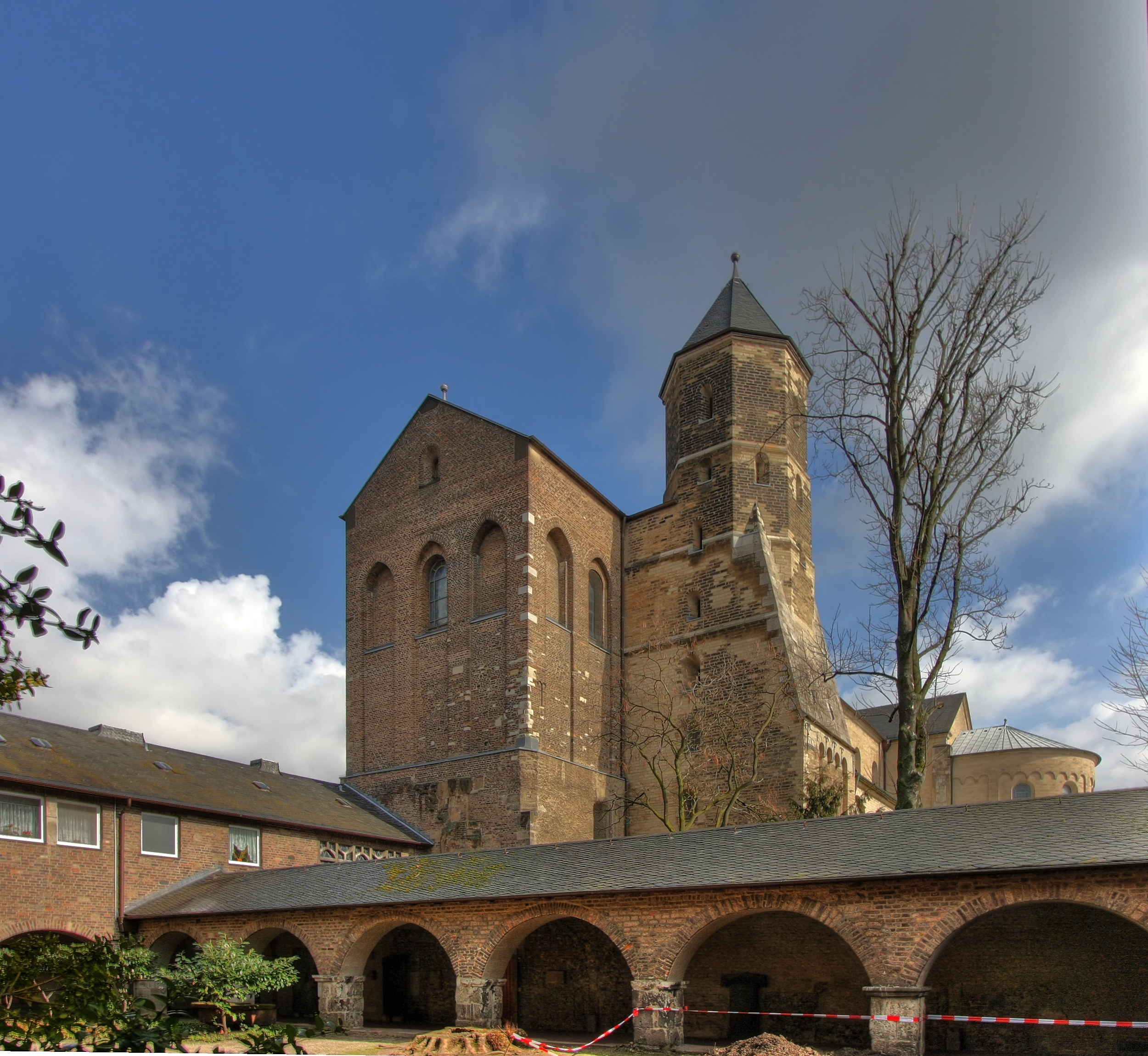 St. Maria im Kapitol, Cologne, west side This is a photograph of an architectural monument.